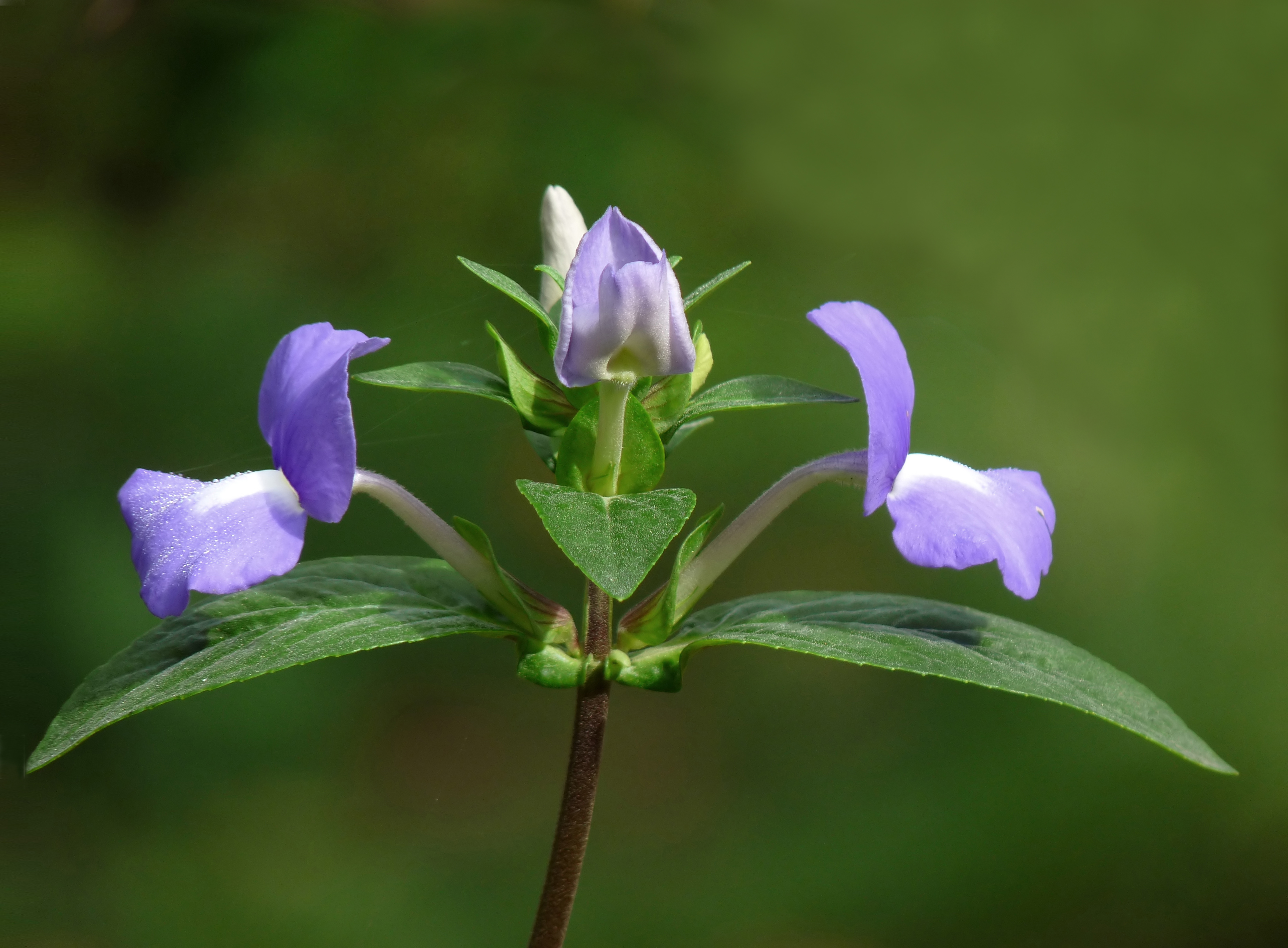 Achetaria azurea, Amazon Blue, is a free branching, spreading, small shrub with bluish mauve flowers with a white eye. Each flower has two conspicuous petals. Leaves are very fragrant with a smell resembling pine scent. It prefers acid soil. Amazon Blue is native to South America. In Indian climate it is an evergreen shrub that blooms most of the year. The Plant List link: Achetaria azurea (Linden) V.C.Souza (Source: KewGarden WCSP)